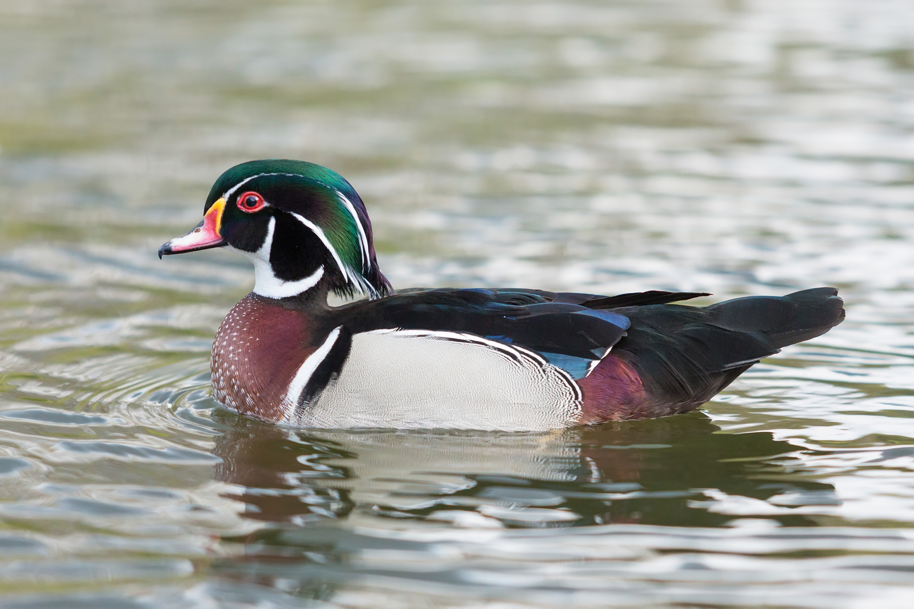 A Wood Duck in St James's Park, London, England.